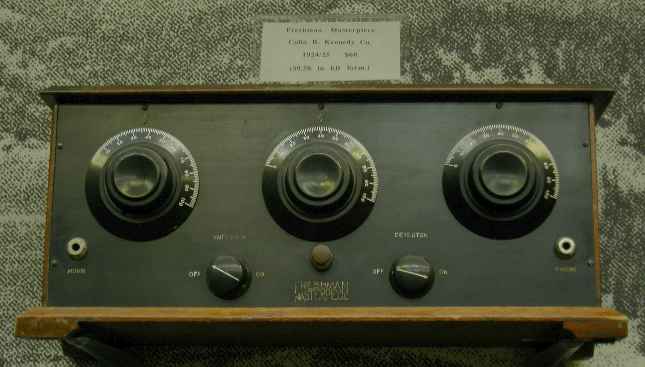 1925 Freshman Masterpiece radio. Colin B. Kennedy Co. 1924/25. Original price: $60, $39.50 in kit form. Photographed at Shoreline Historical Museum, Shoreline, Washington.